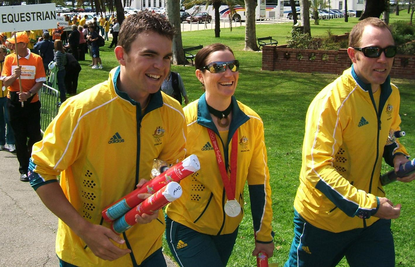 Jack Bobridge, Anna Meares and Shane Kelly at the 2008 Olympic welcome home parade in Adelaide